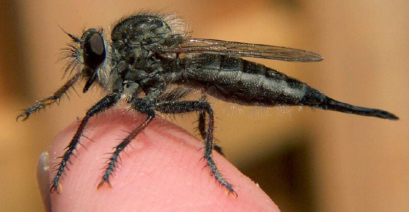 Adult female robber fly, Efferia aestuans Diptera family Asilidae